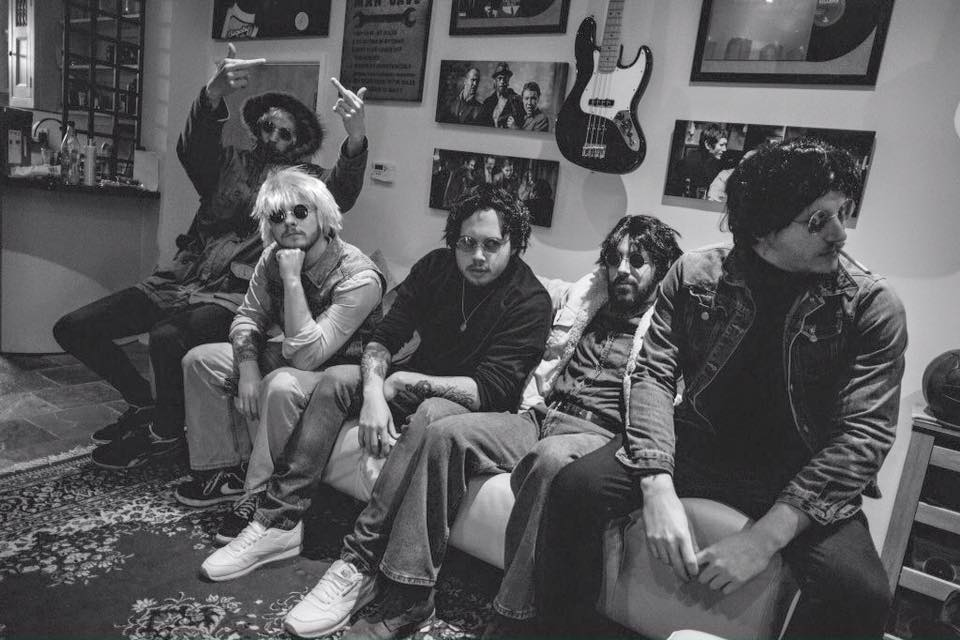 Youth Killed It